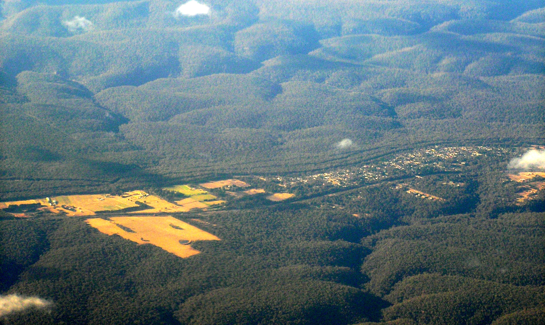 Yerrinbool New South Wales as viewed from North West